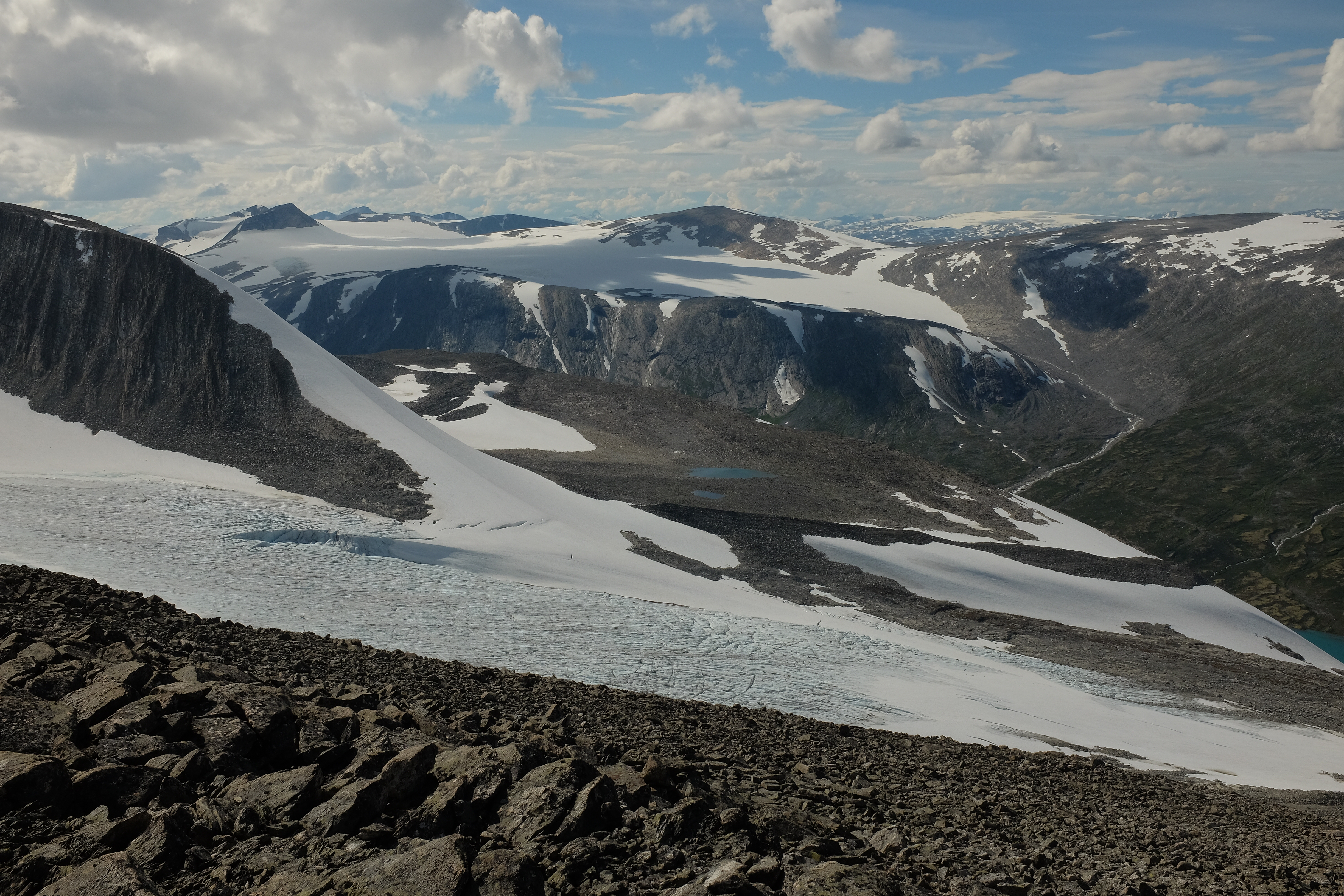 Holåbreen eastern tongue of the glacier. Ytstebreen in the front. Both glaciers in Skjåk municipality in Oppland and Luster in Sogn og Fjordane.